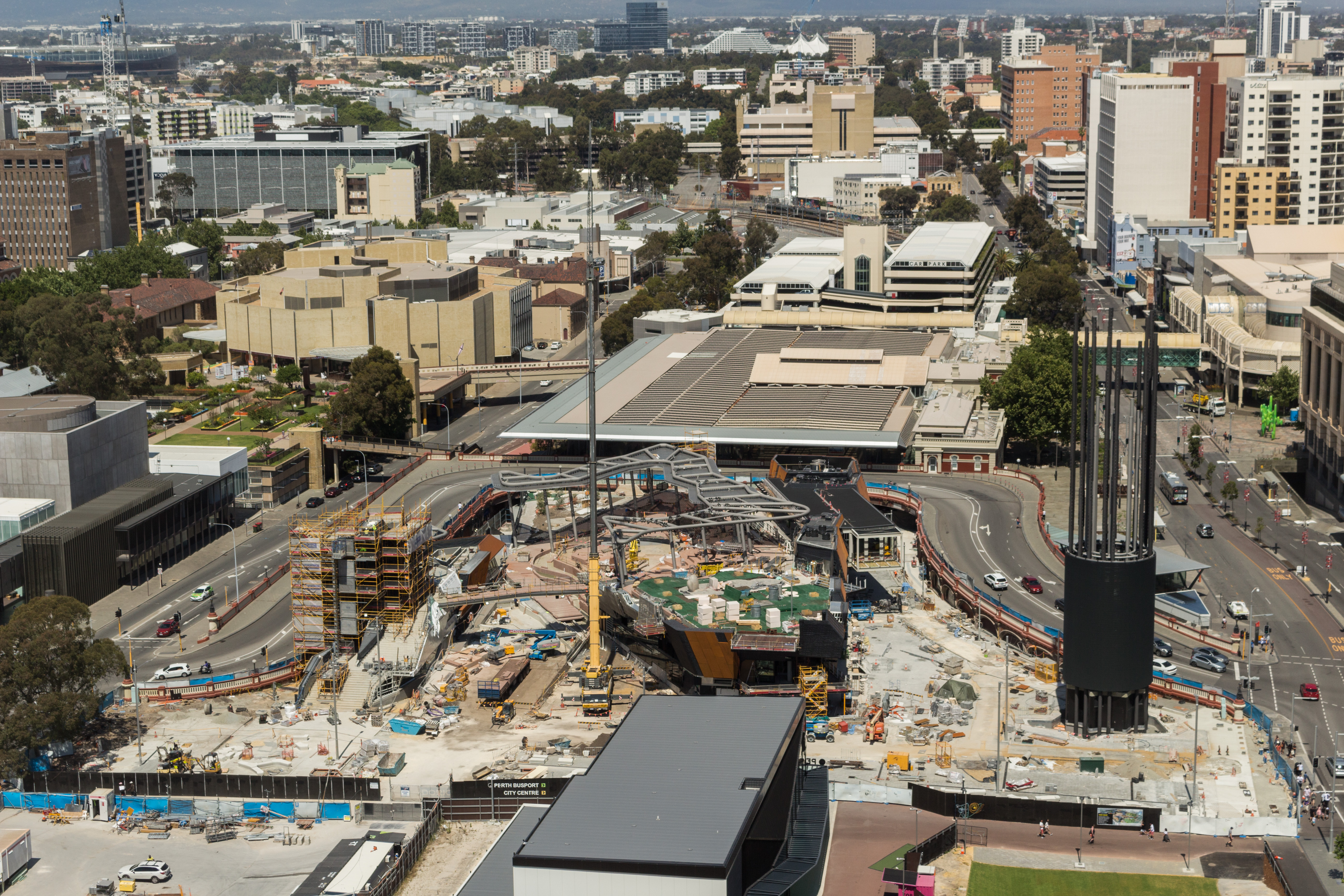 Yagan Square and surrounds. The Perth Cultural Centre can be seen in the top left, Perth railway station in the top, and the Perth Busport on the bottom. Photographed from 556 Wellington St building.